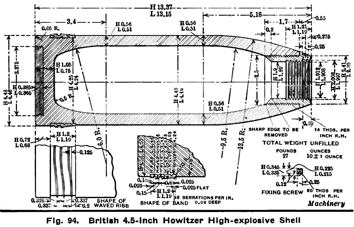 Diagram showing dimensions of High Explosive shell for British 4.5 inch howitzer, 1916.